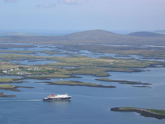 Leaving Lochmaddy, near to Lochmaddy/Loch Nam Madadh, Na h-Eileanan an Iar, Great Britain. Ferry departing for Skye.